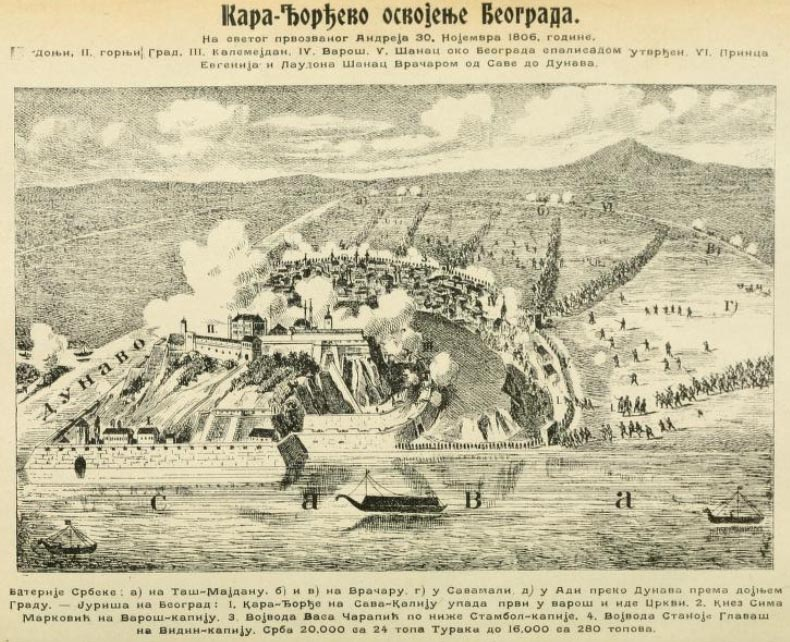 Liberated Belgrade, Serbian Revolution